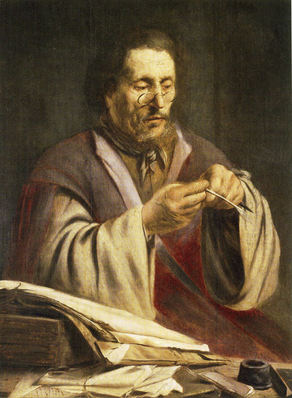 A man, face turned towards the viewer's right, is carefully cutting a quill.